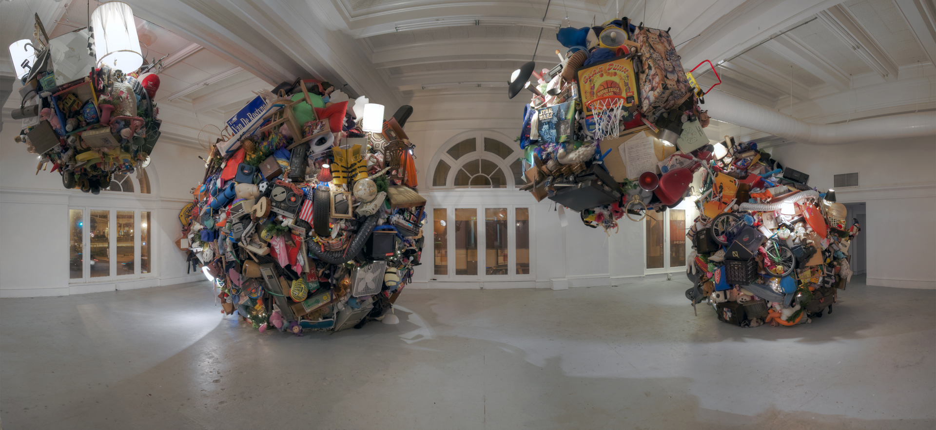 Small Moons, Land of Tomorrow Gallery, Louisville, KY 2012 pvc, wire, various objects The “Small Moons” are huge conglomerations of household objects, collected through local donations in response to the artists’ ad on Craigslist. To create the installation, SBC built geodesic armatures out of PVC pipe and started attaching the objects. Many of the electronics are wired in: old DVD players flash 12:00am, waiting for their clocks to be reset. Fans whir, lamps glow.